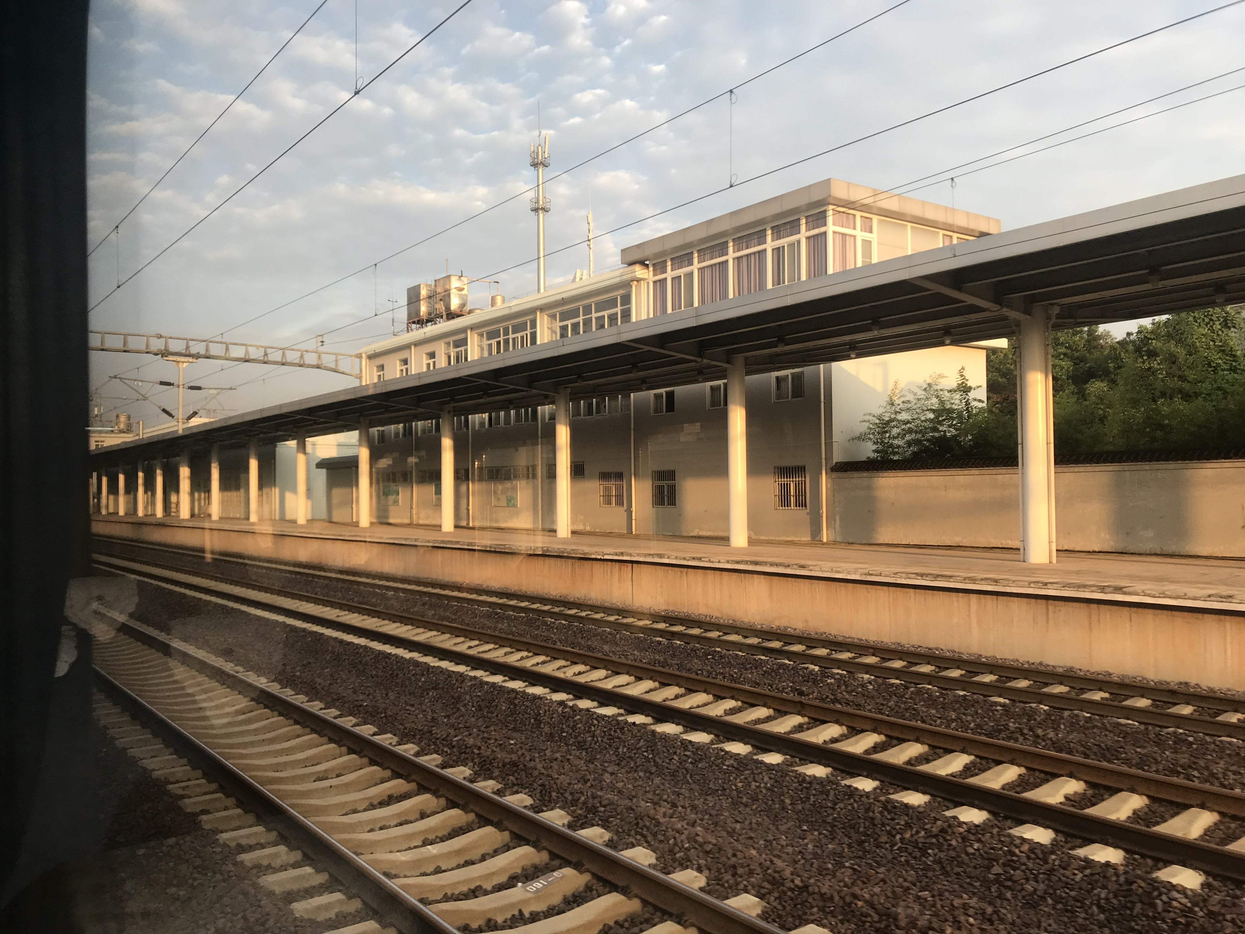 201908 Conductor House of Dushupu Station